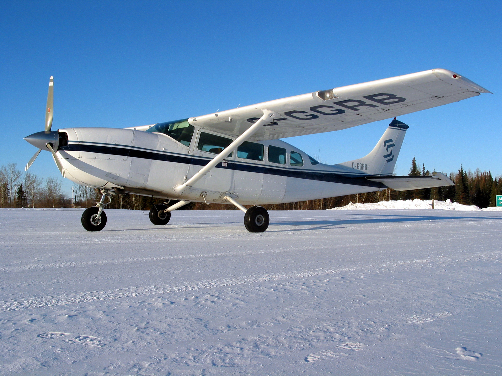 This was my favourite of the piston singles. Though the 206 had better short field performance, this 207 was quieter, flew straighter, and had a convenient storage are in the nose.